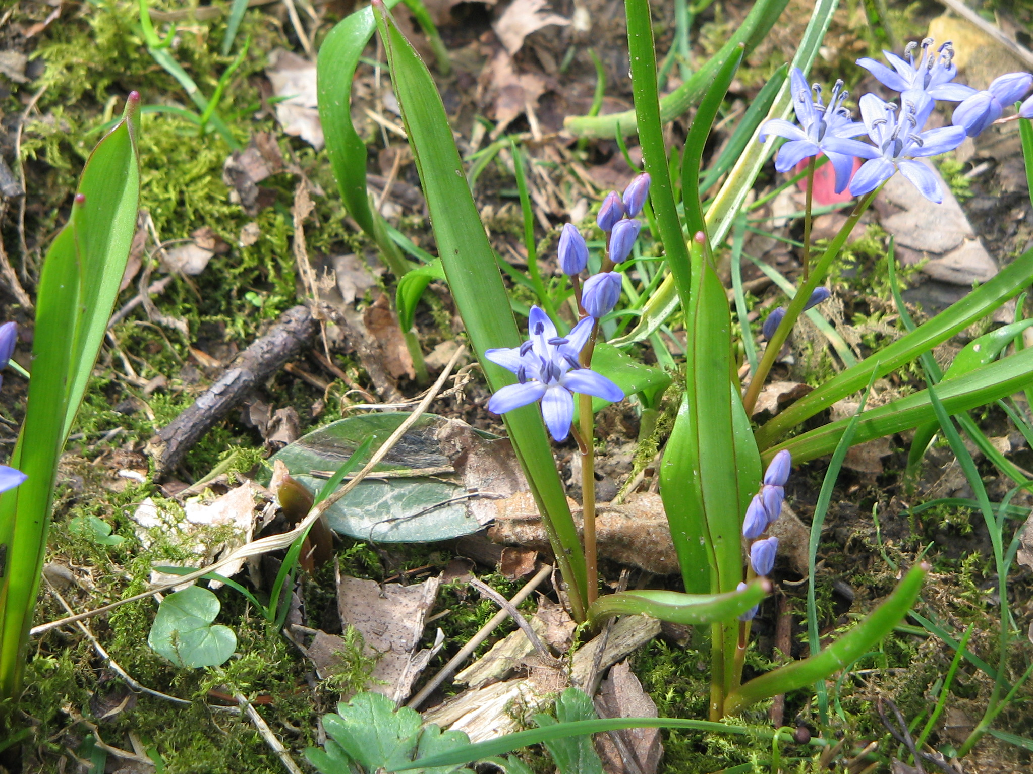 Scilla bifolia